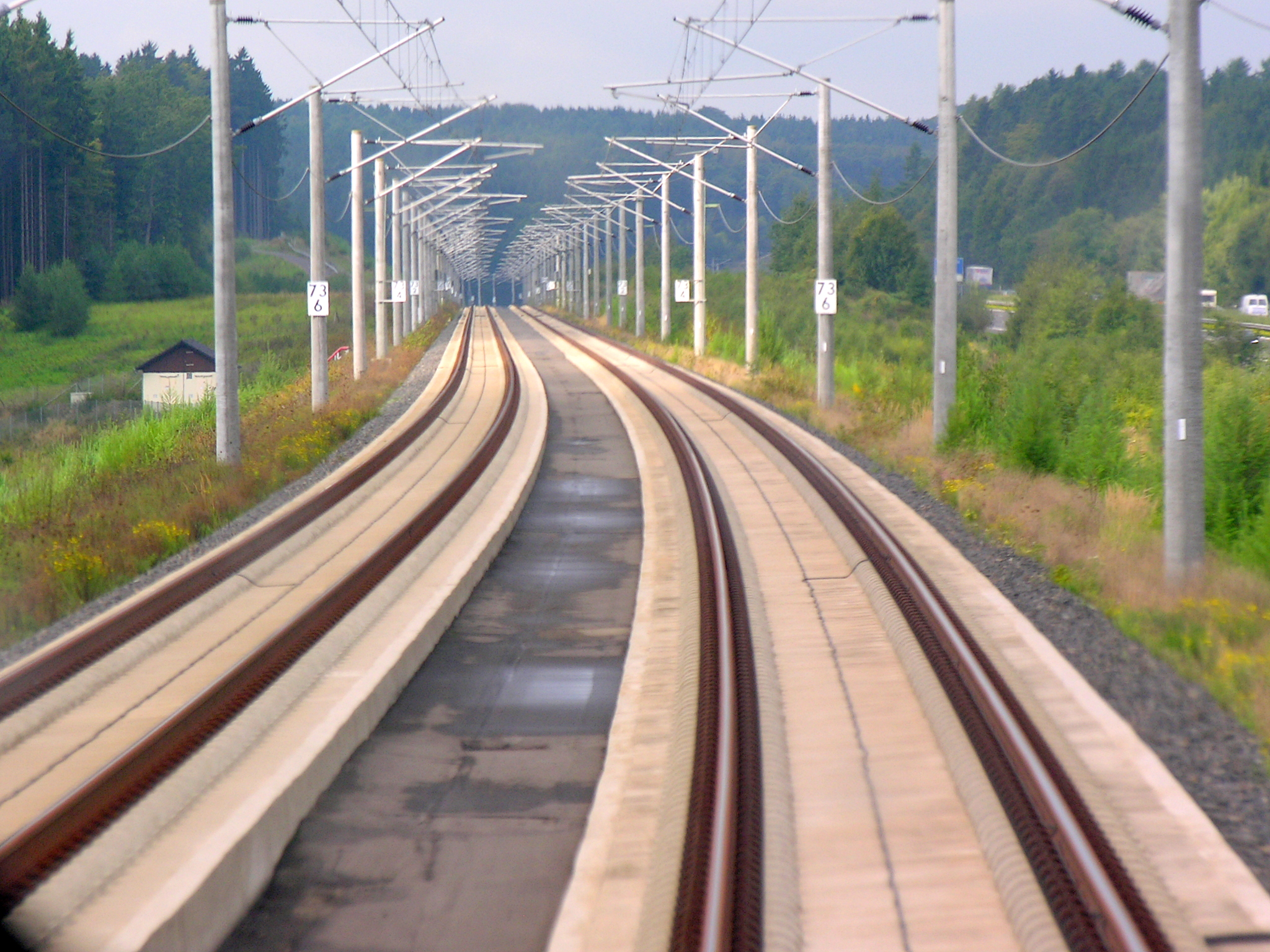 Germany, From Frankfurt to Cologne in the driver's cabin